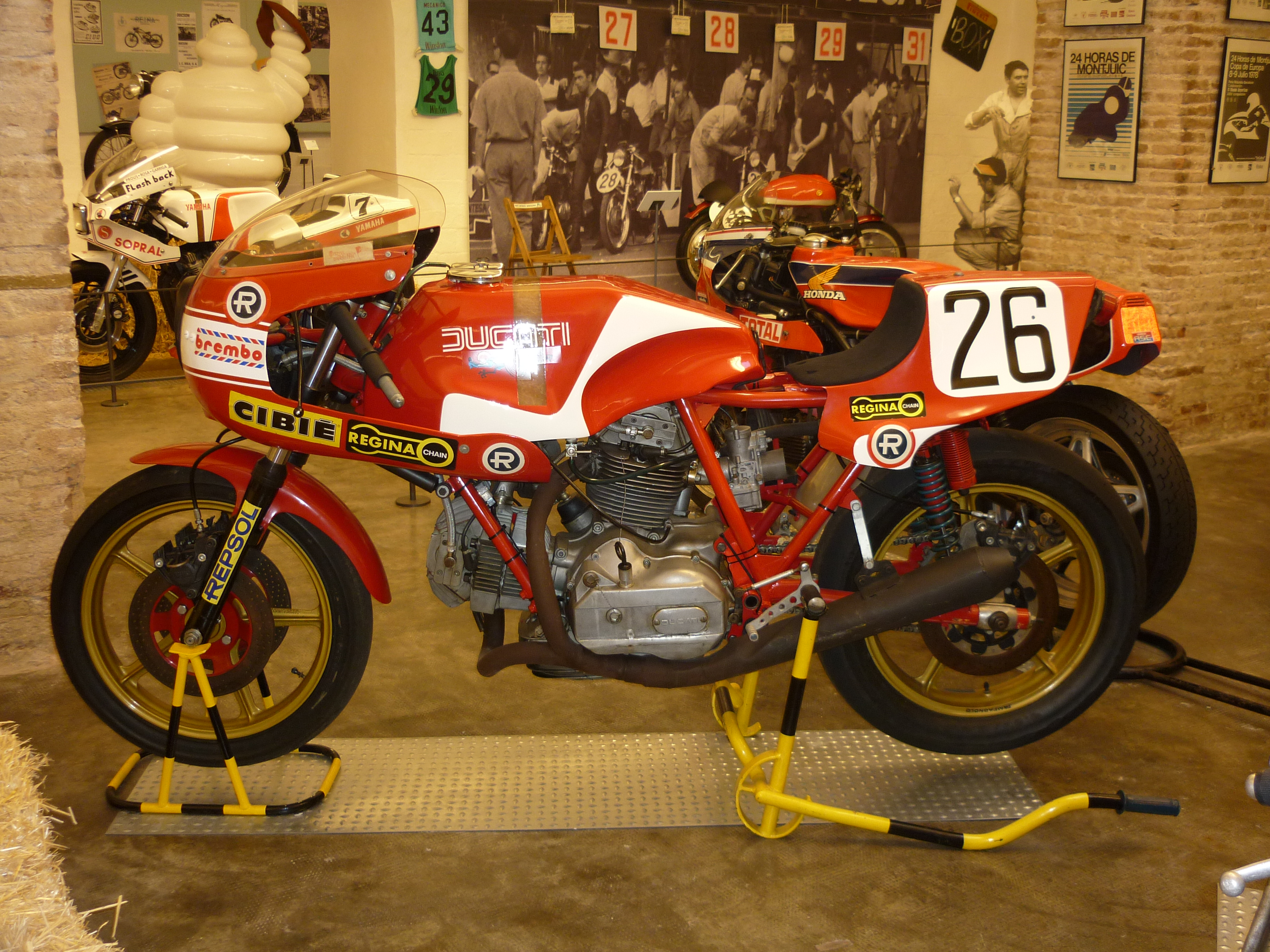 Ducati 900SS 900cc. On this bike, Josep Maria Mallol and Alejandro Tejedo won the XXVI 24 Hours of Montjuïc, on 1980